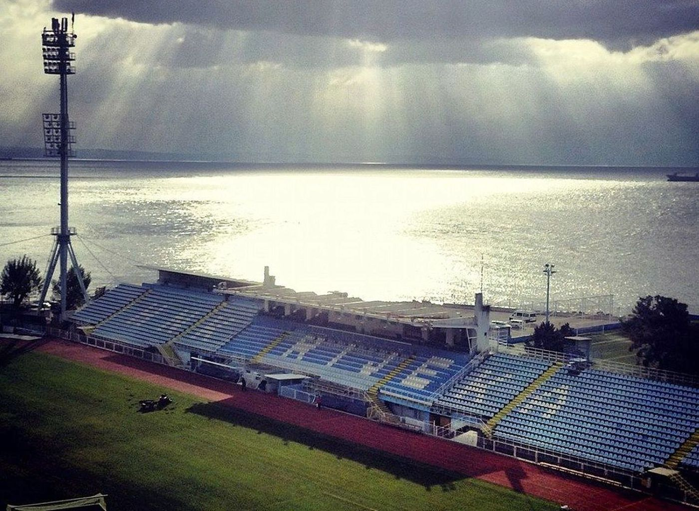 Arena football Kantrida